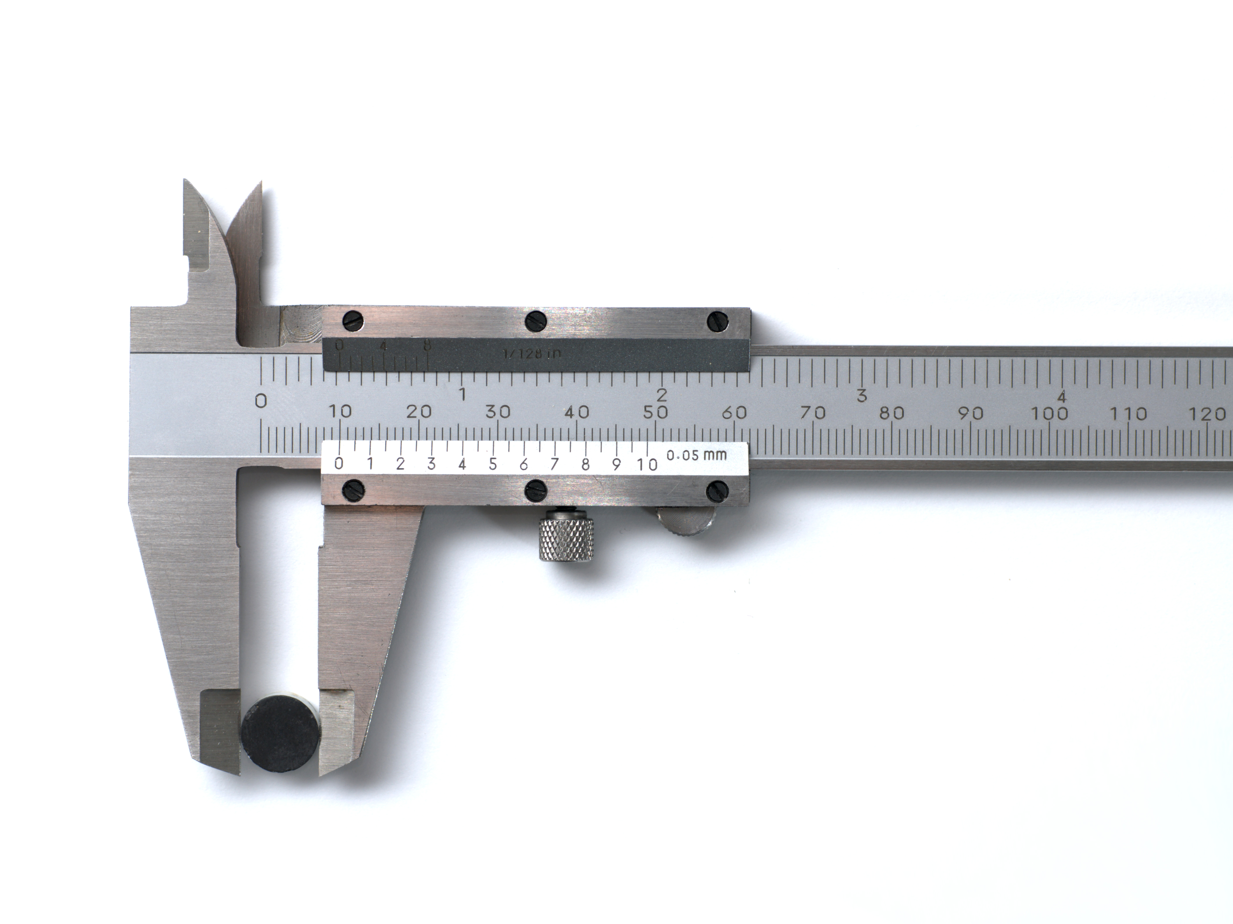 Caliper